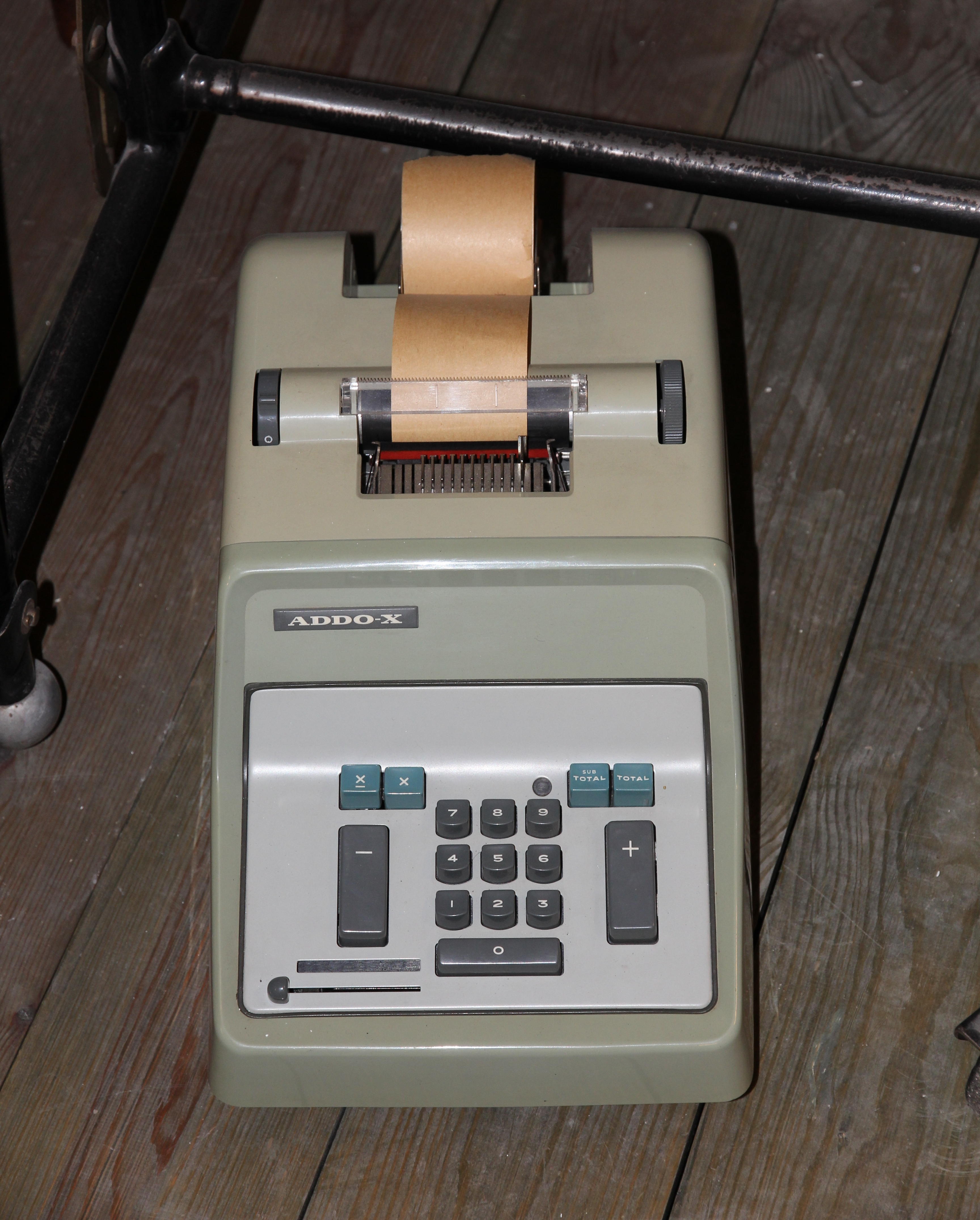 ADDO-X paper tape calculator, probably manufactured by AB Addo. Photographed in Finnish customs museum.